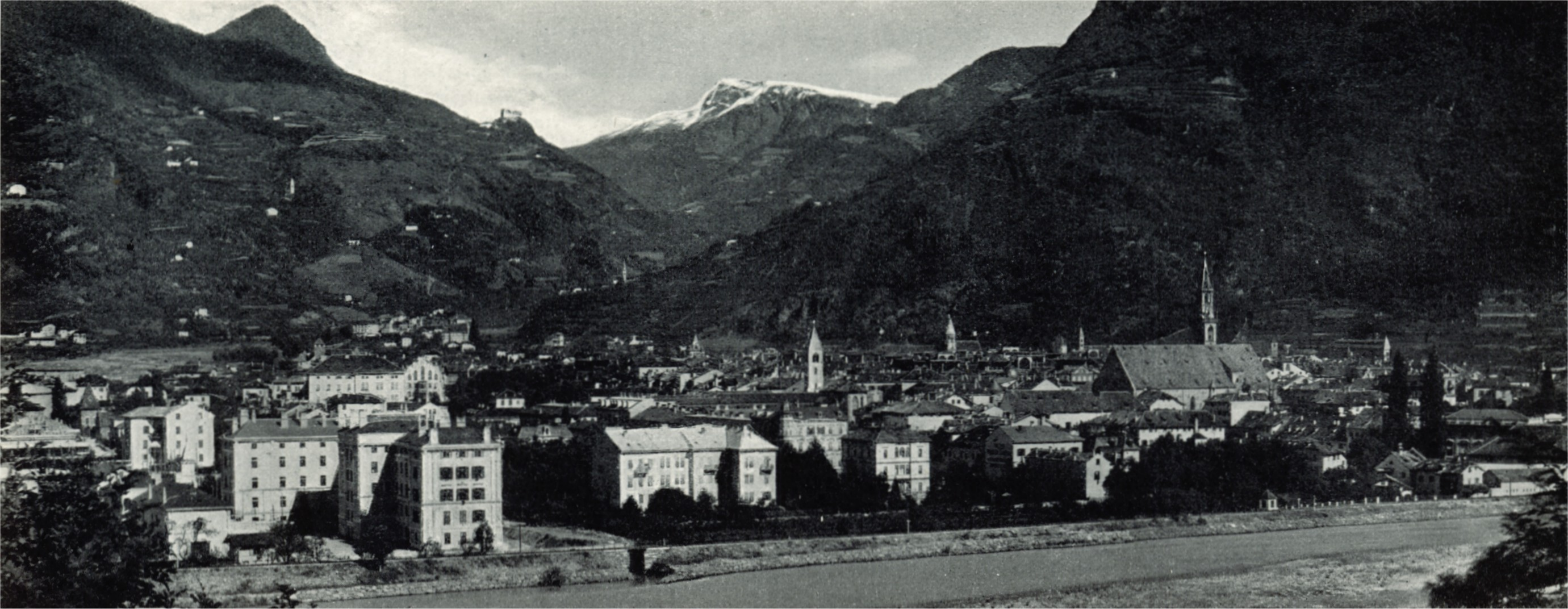 The city of Bozen in Southern Tyrol um 1898